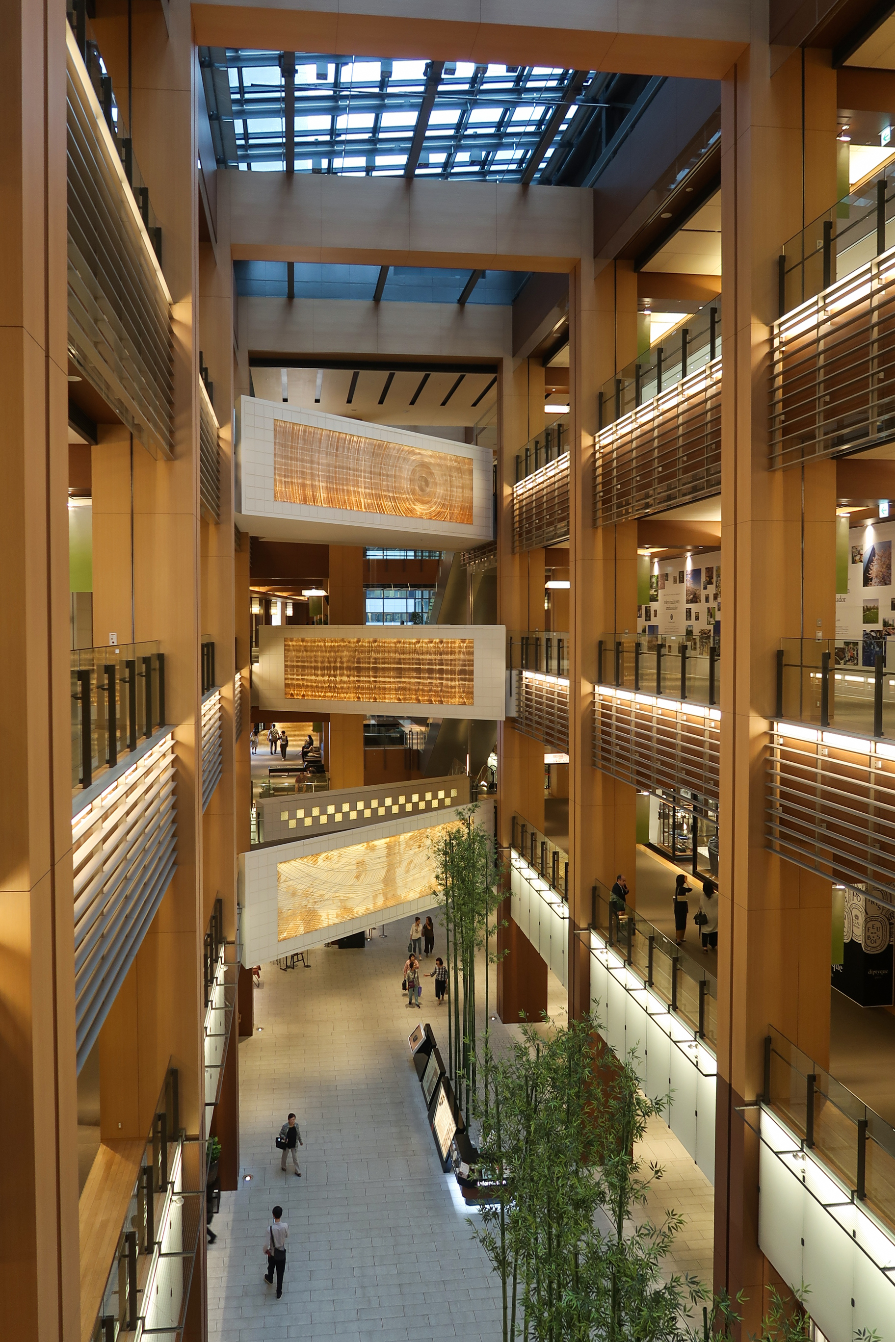 Tokyo Midtown The Galleria